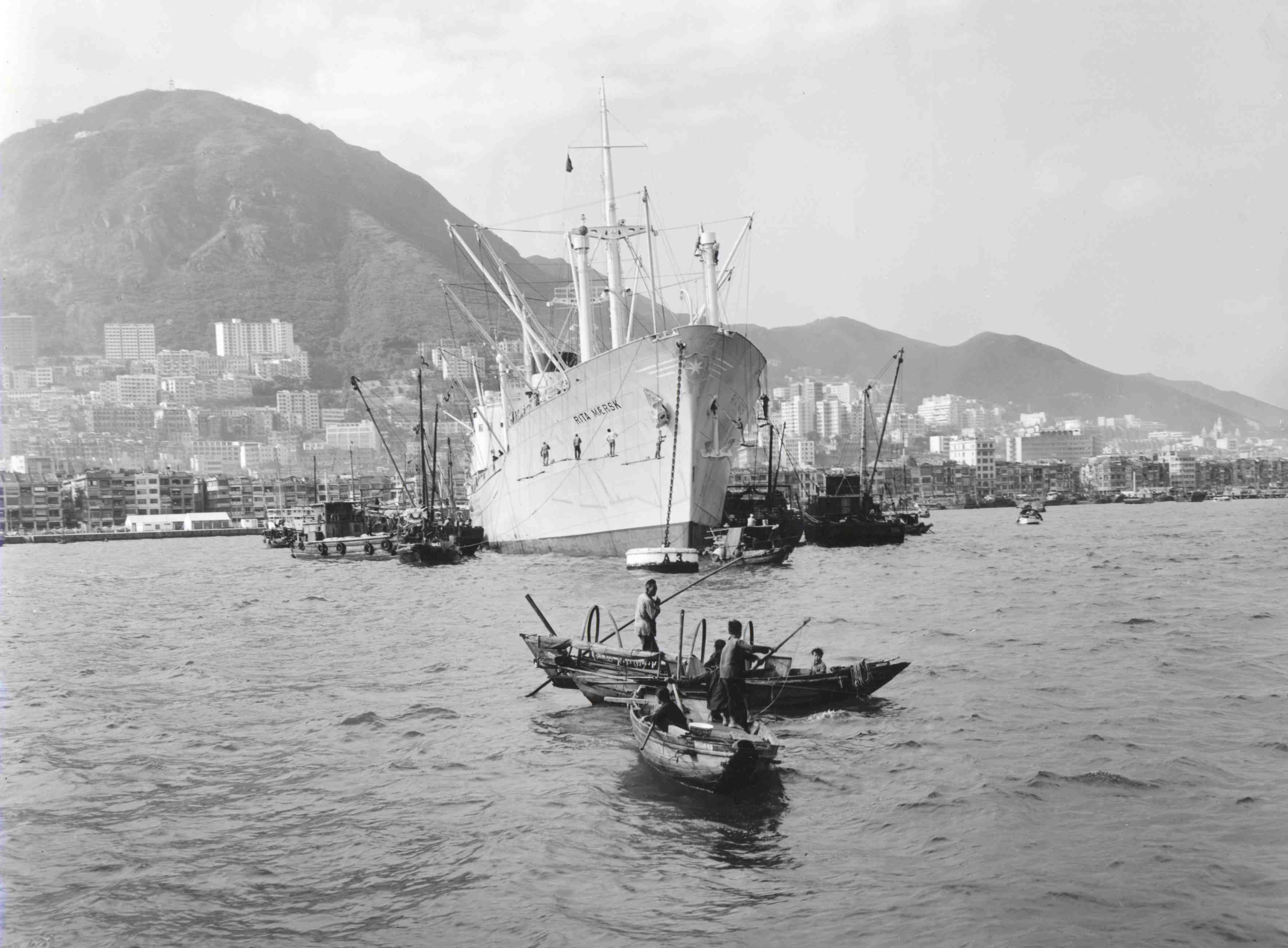 Rita Mærsk moores at a buoy in Hong Kong harbour in th early 1960s. Hong Kong was an important junction for Maersk Line and four or five of the Maersk blue ships were often in port at the same time.